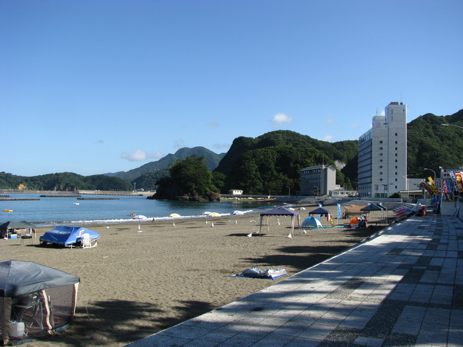 The Matsuzaki Kaigan (Matsuzaki beach) is located in Matsuzaki, Kamo, Shizuoka, Japan.